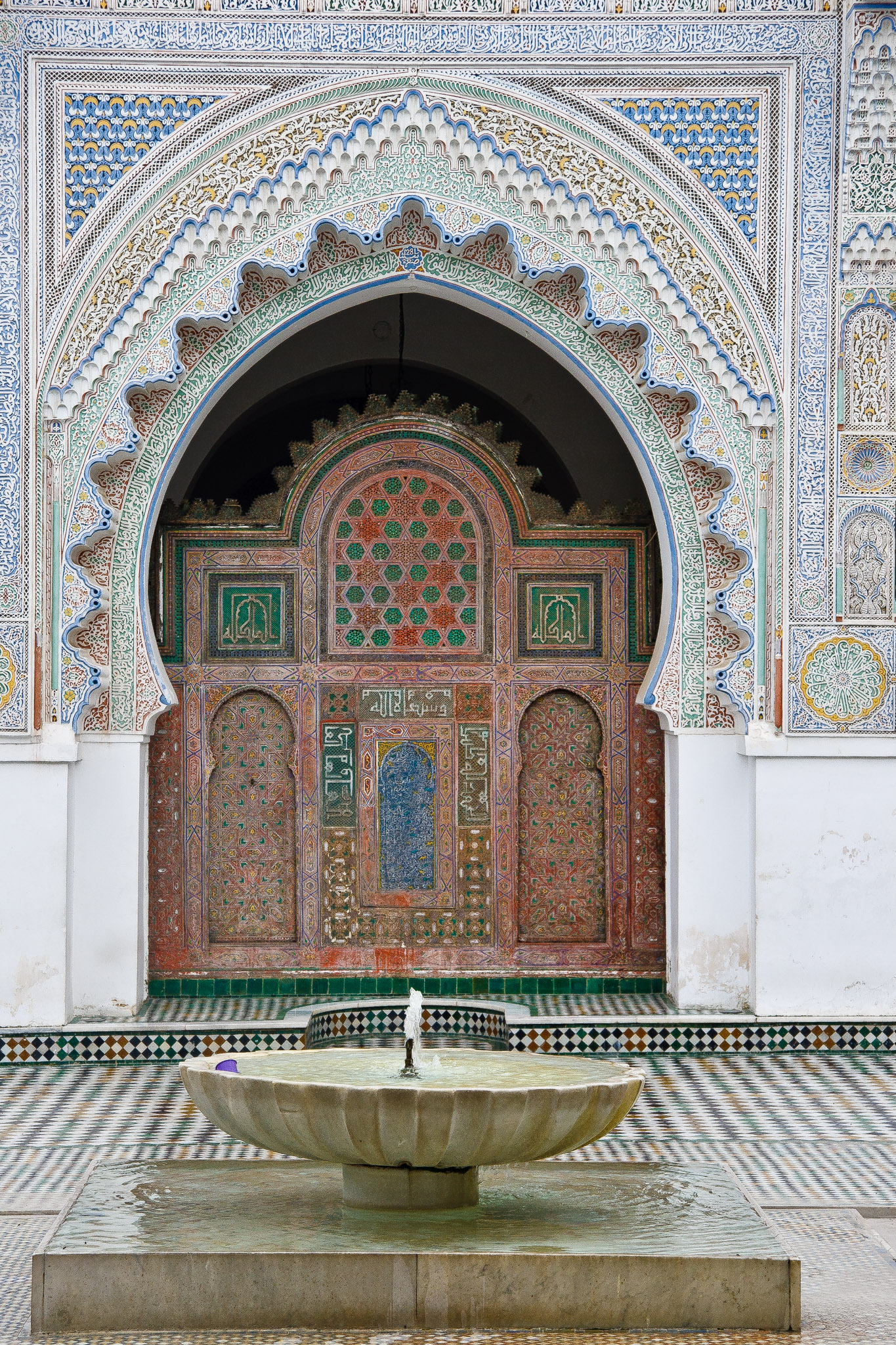 Karaouine Mosque and University